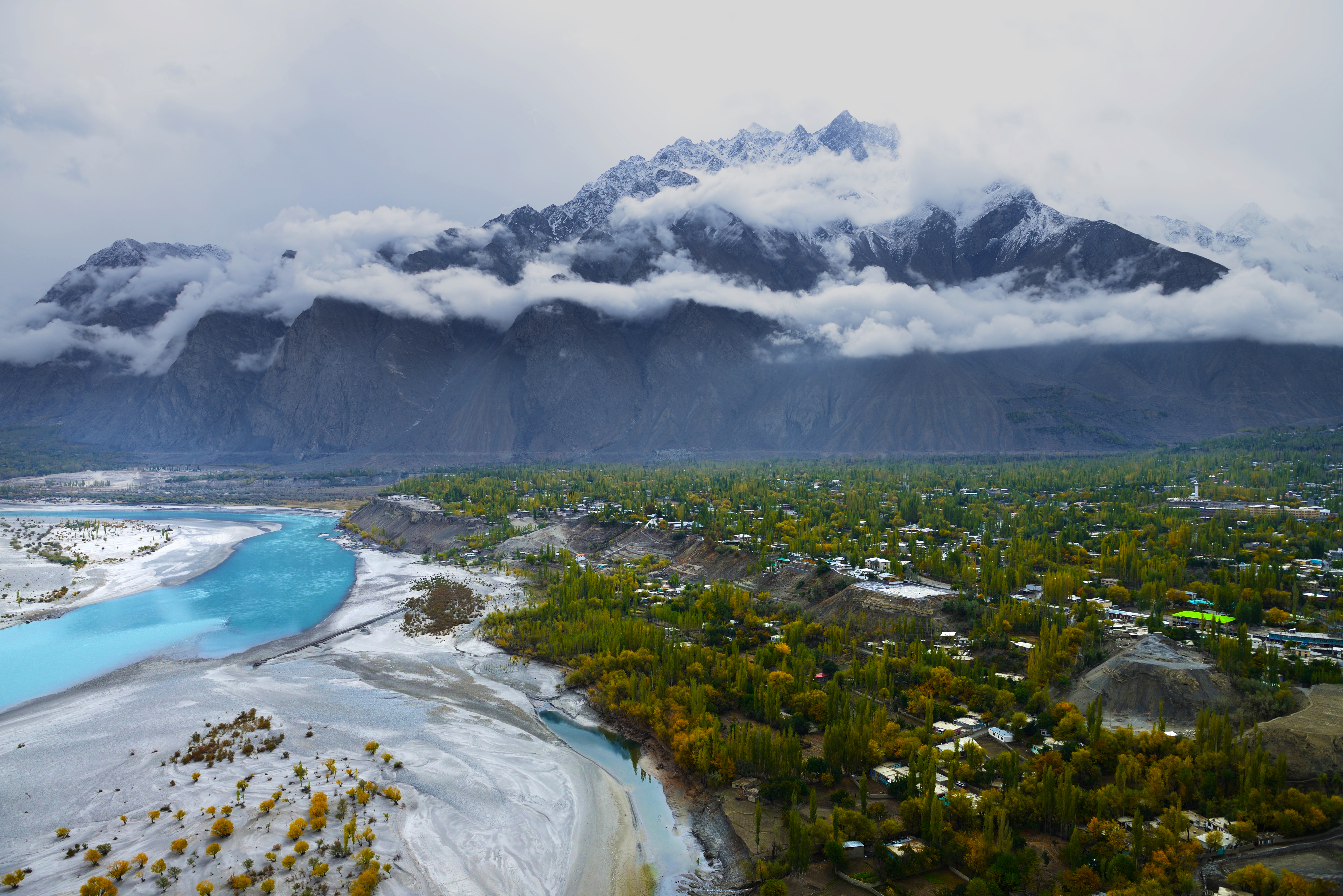 Skyline of Skardu city, captured from Kharpocho Fort. Skardu is in the Northern areas of Pakistan and part of Gilgit-Baltistan. This is also the gateway of high mountains of Karakoram range, K-2; the second most highest mountain on earth is located there.